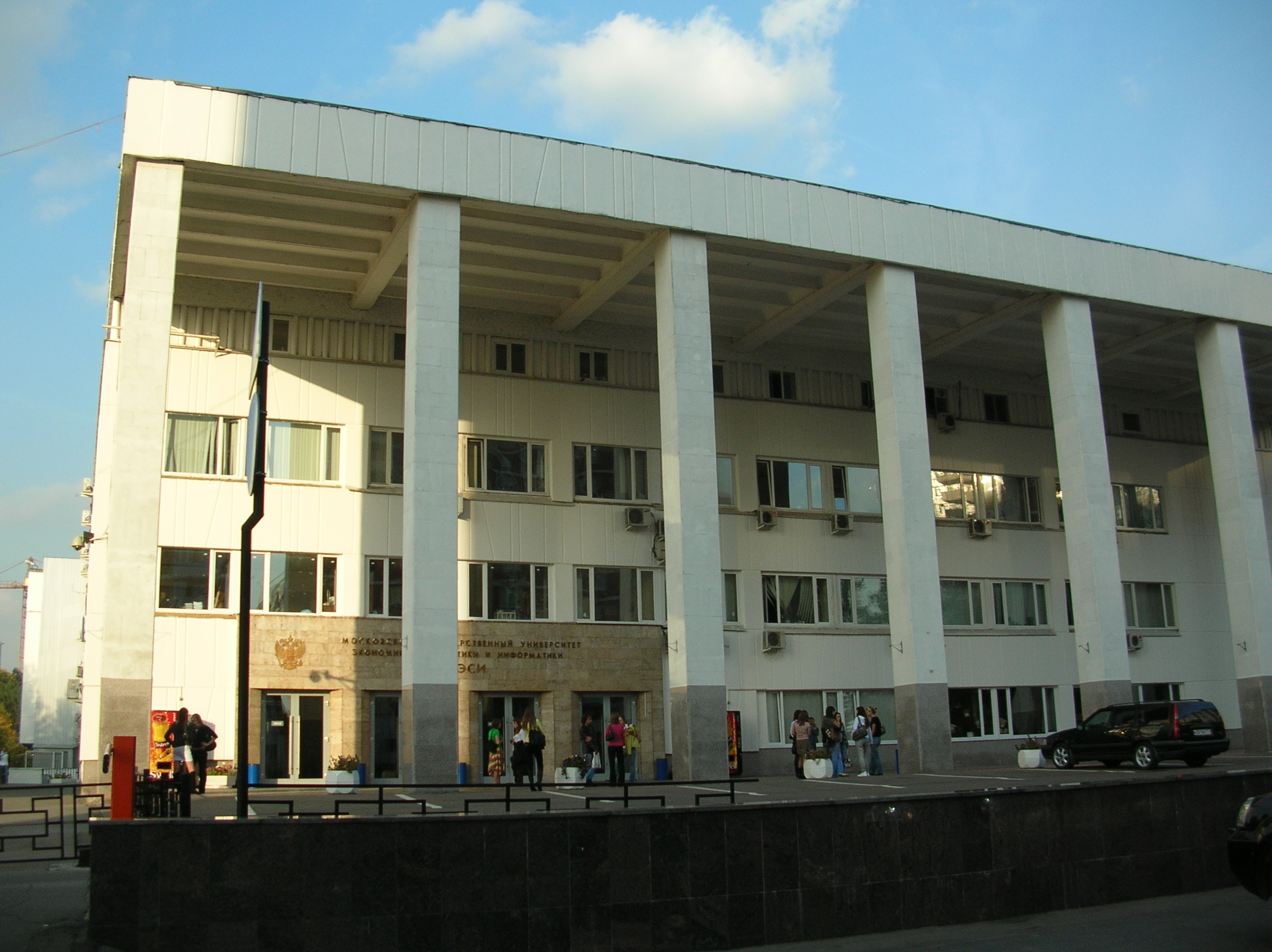 The main building of MESI (МЭСИ)